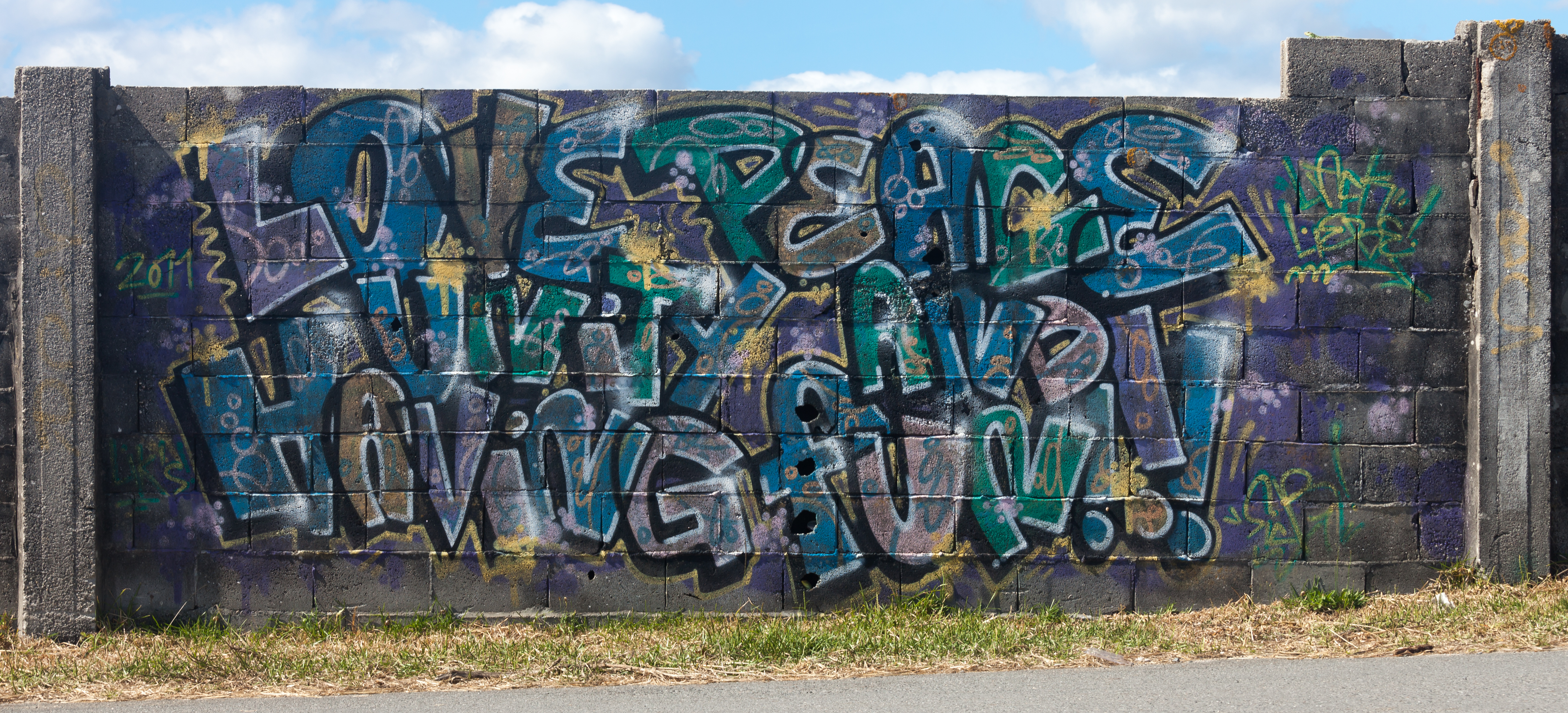 Graffiti in Lariño, Carnota, Galicia (Spain).